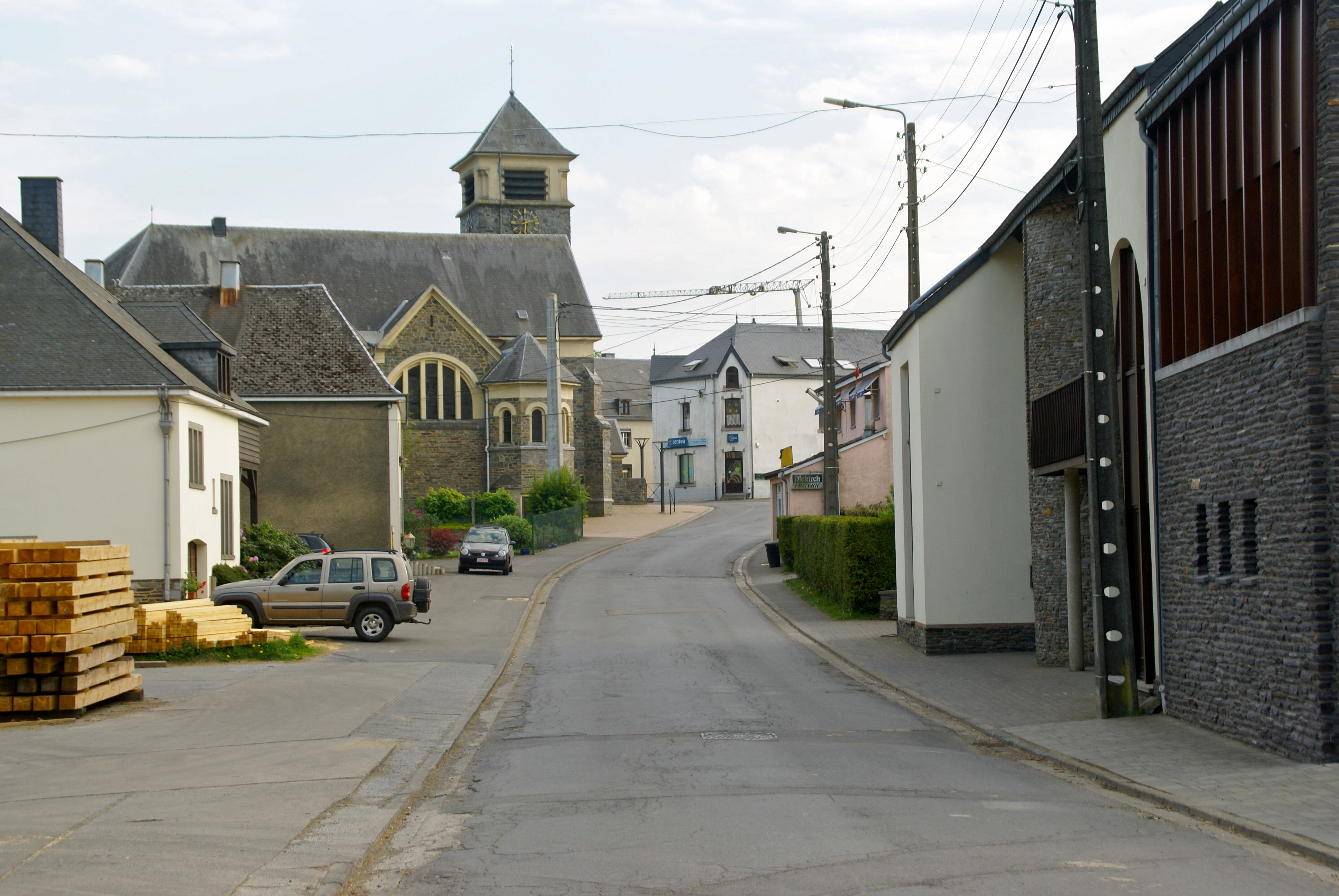 Vaux-sur-Sûre, Belgium: Panorama